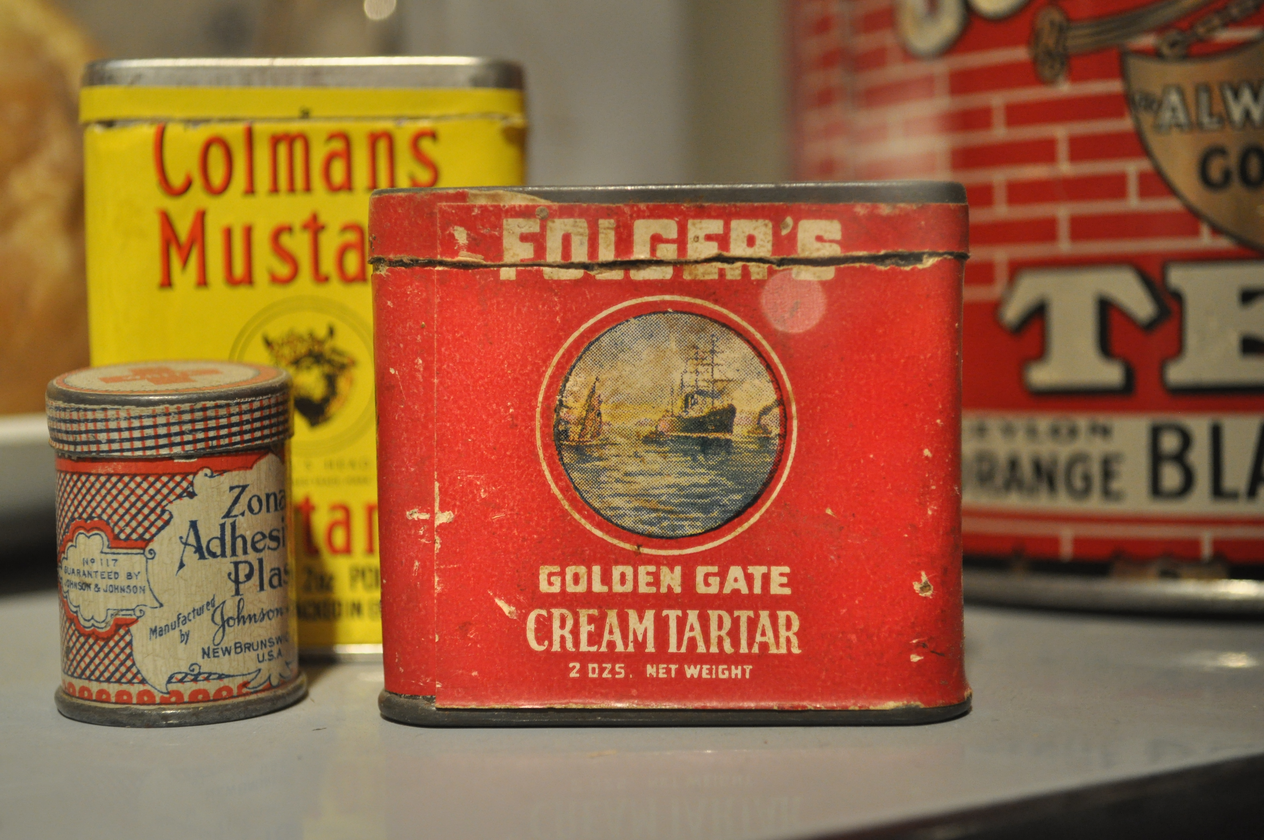 Tins, early to mid 20th century, most visibly one from Folger's Golden Gate Cream Tartar, Edmonds Historical Museum, Edmonds, Washington, USA.